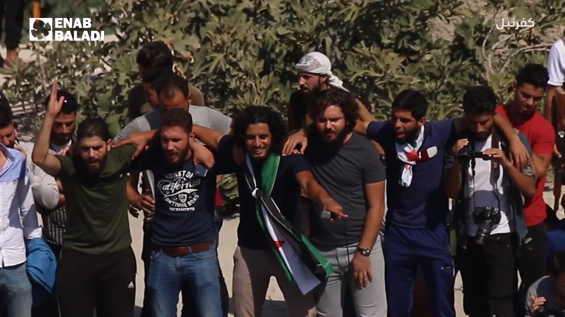 Syrian rebel leader Abdul Baset al-Sarout (center with flag) during a pro-rebel demonstration in the town of Kafr Nabl in northwestern Syria